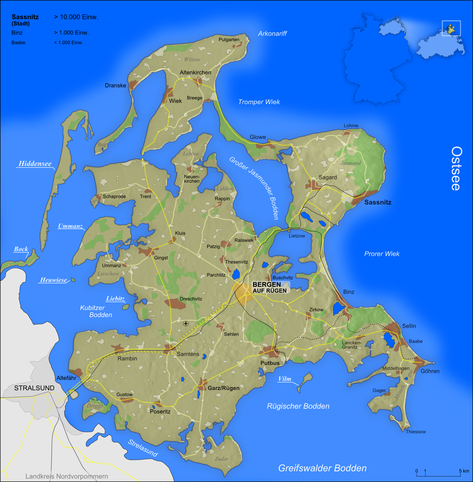 Map of Rugia Island, Western Pomerania, Germany